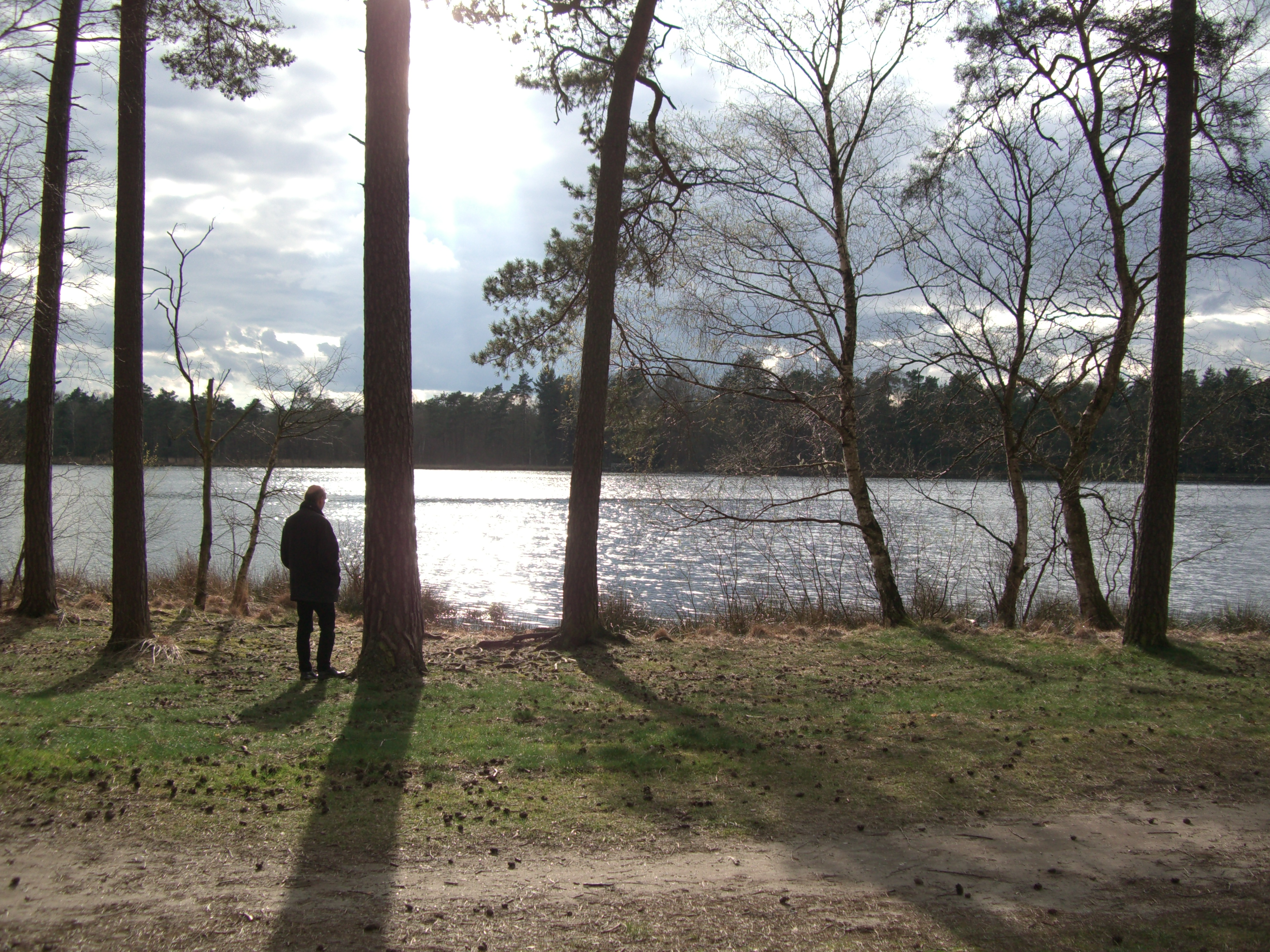 Großer Bullensee, lake in the vicinity of Rotenburg (Wümme), Germany, shot taken westward. The area is known for rich midge populations.